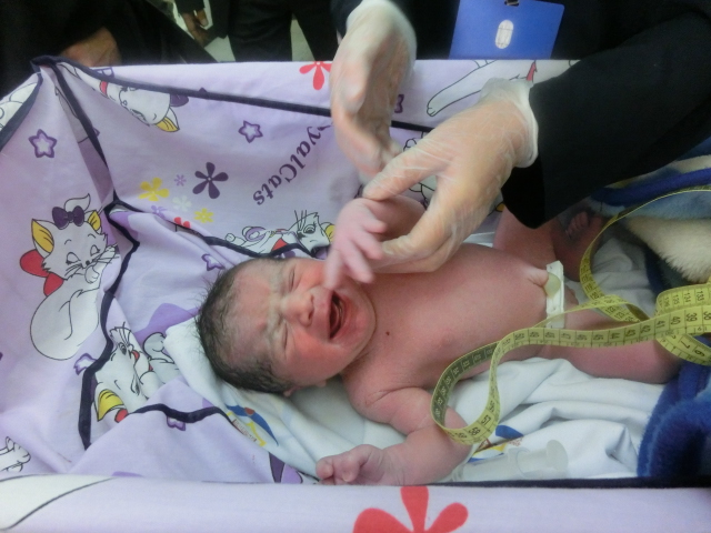 A 30 minutes old infant in Iran. The nurse is doing some care after birth.